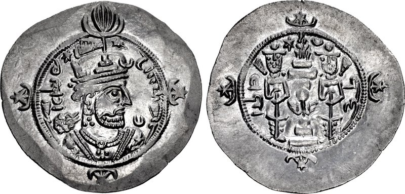 Coin of the Sasanian king Kavadh II, minted at Ray in 628.